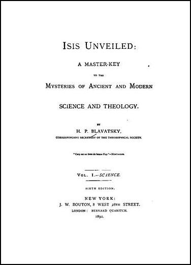 H. P. Blavatsky's Book Isis Unveiled, vol. I. Sixth edition.